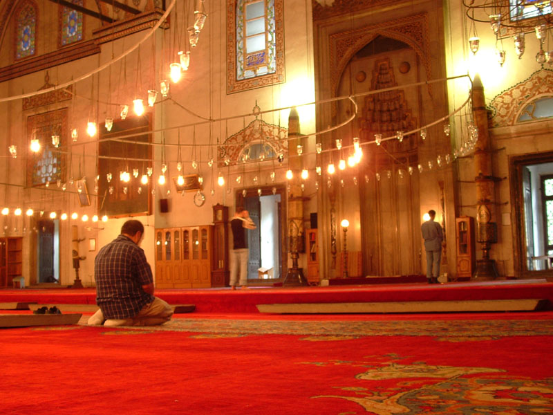 Beyazit Mosque, Istanbul